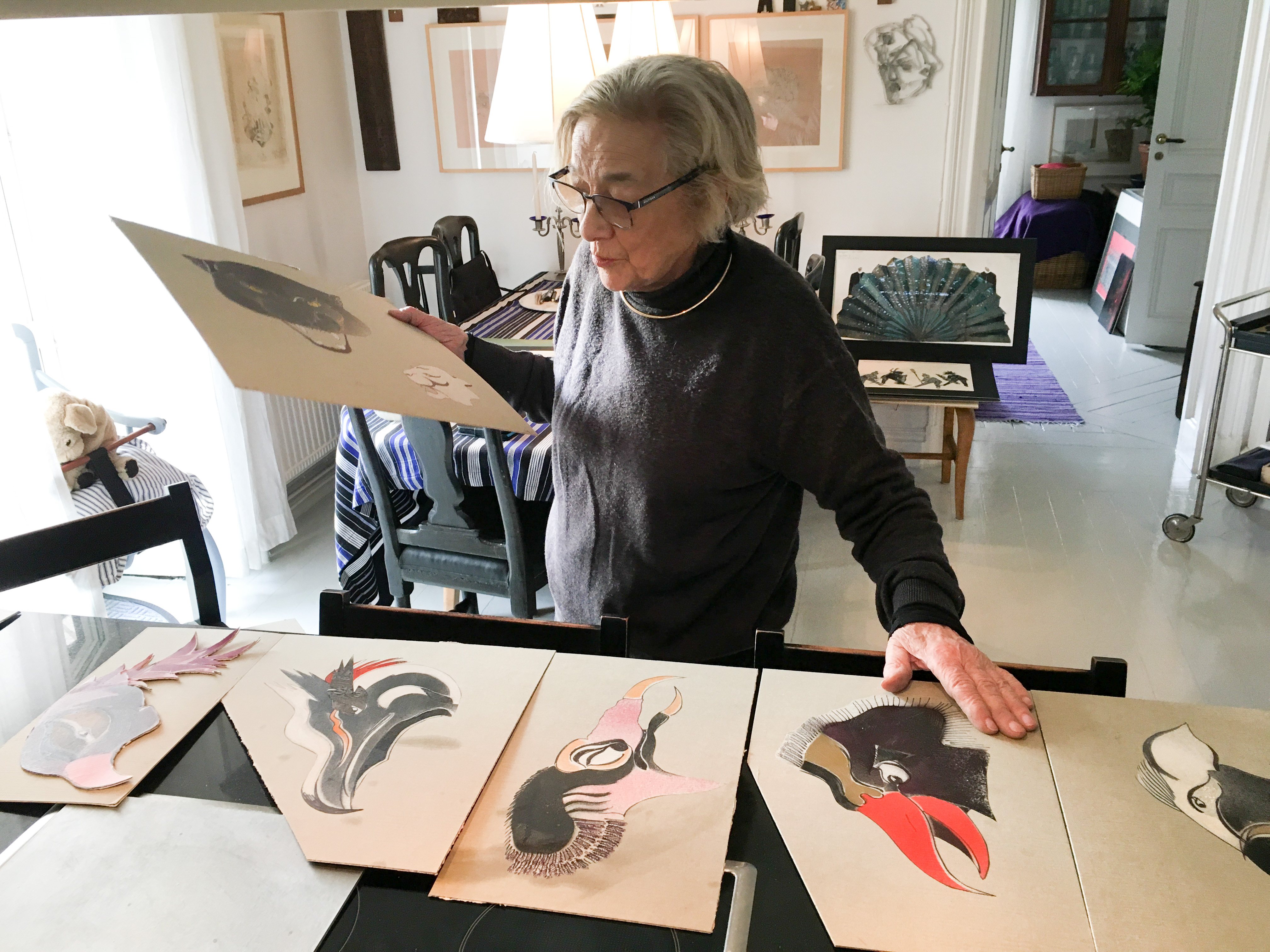 The artist choosing sketches for an exhibtion.